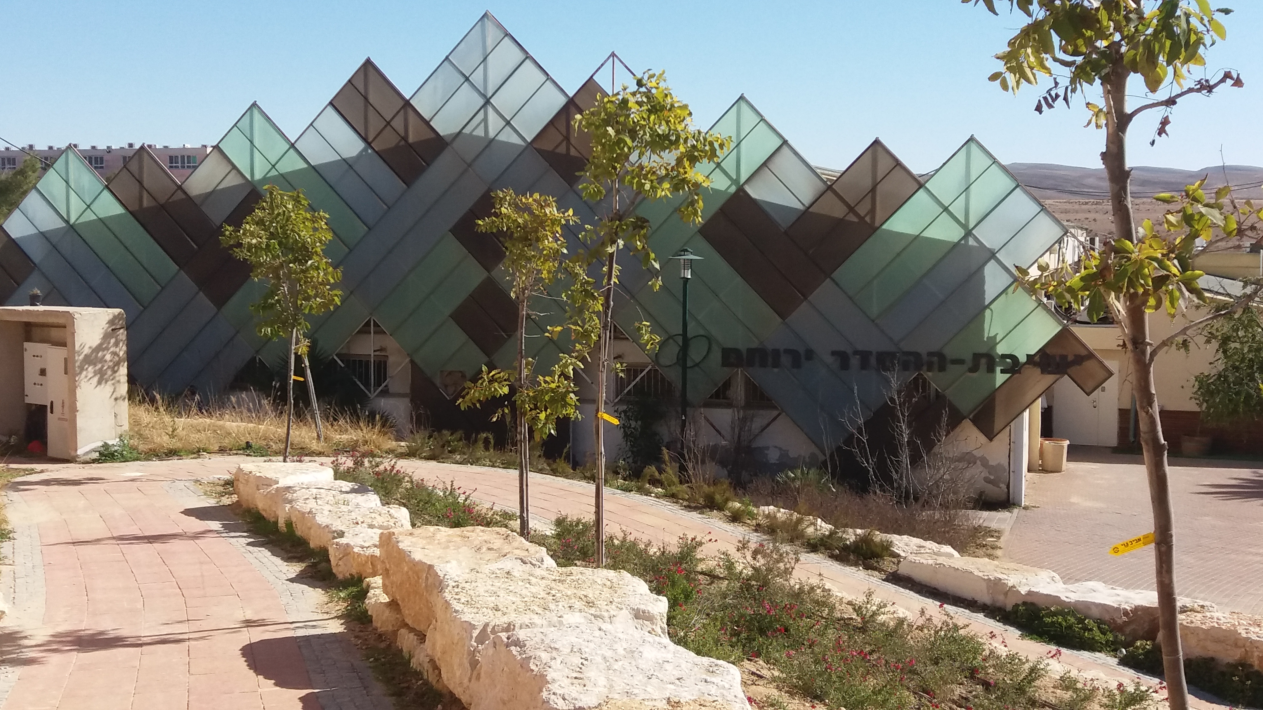 Yeshivat HaHesder Yeruham old building.